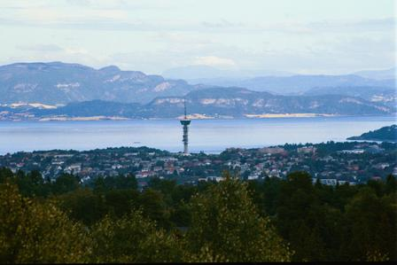 This is a view of Trondheim, Norway as seen from Lian.